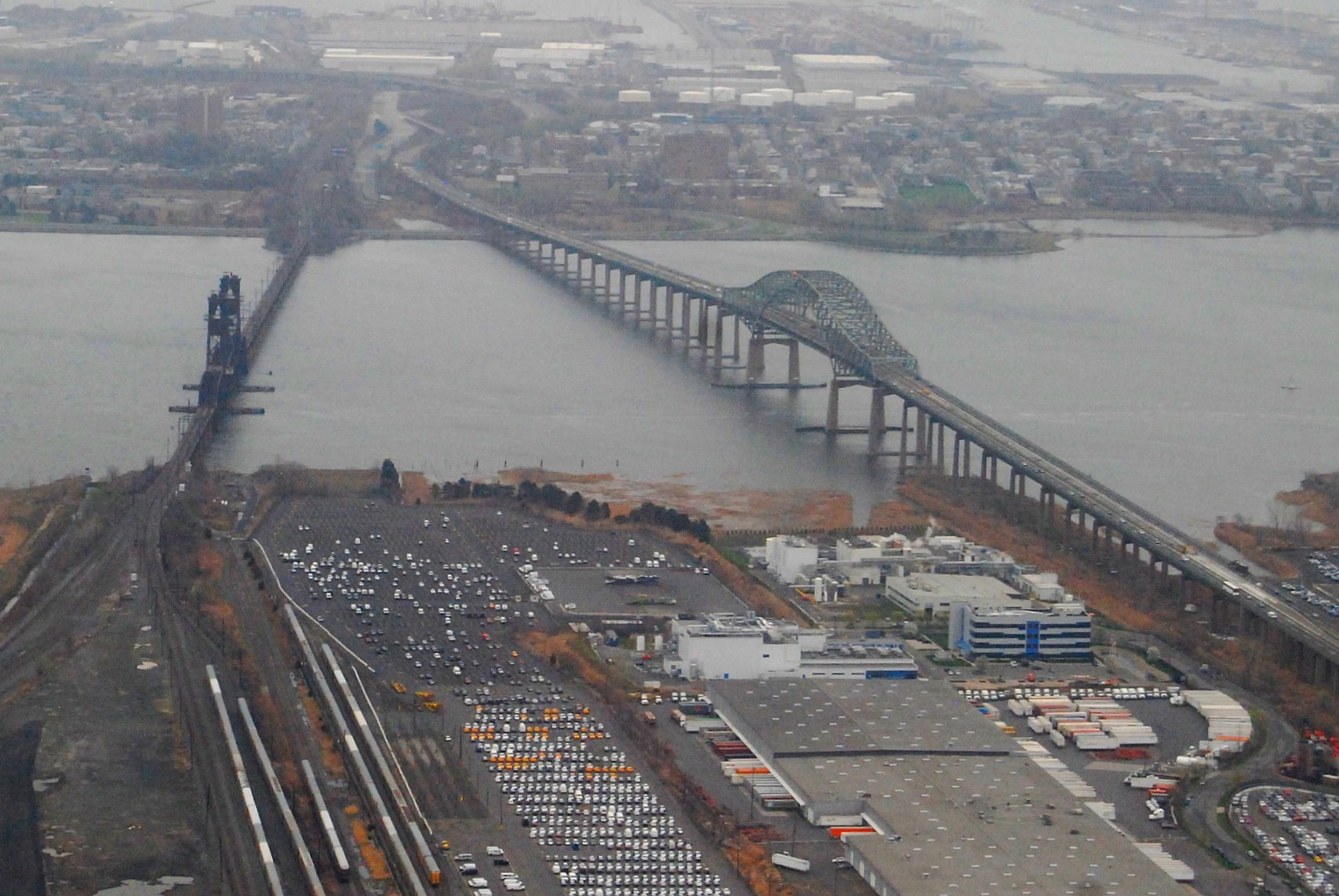 Looking east across Newark Bay, New Jersey. On the right is the Newark Bay Bridge, part of the New Jersey Turnpike. Seen on the left is the Upper Bay Bridge (Lehigh Valley Railroad Bridge). In the foreground is Oak Island Yard.